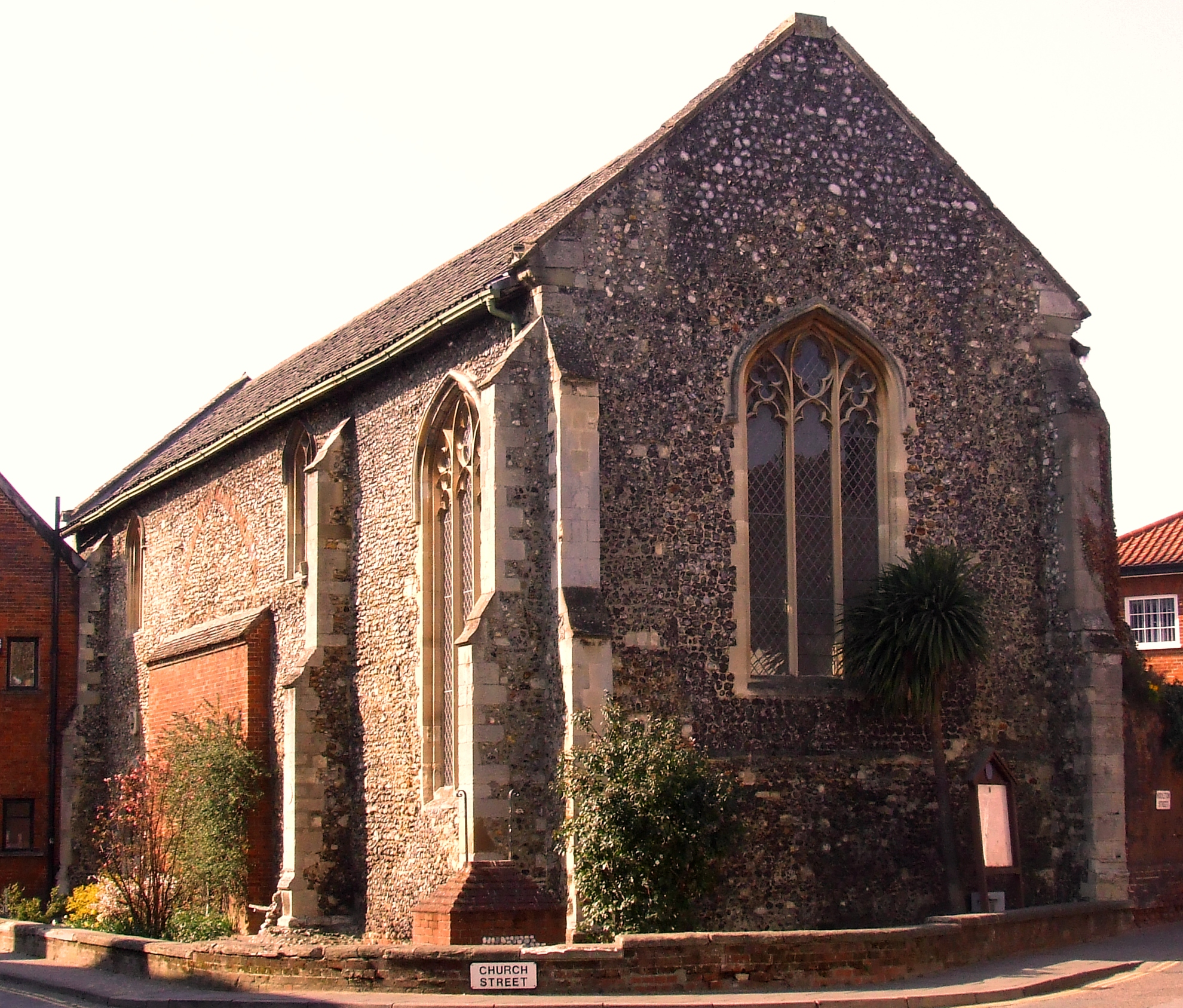 Becket's Chapel in Wymondham Abbey, Norfolk, England